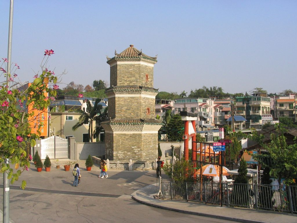 Tsui Sing Lau Pagoda, Ping Shan Heritage Trail.中文（香港）: 屏山文物徑・聚星樓。